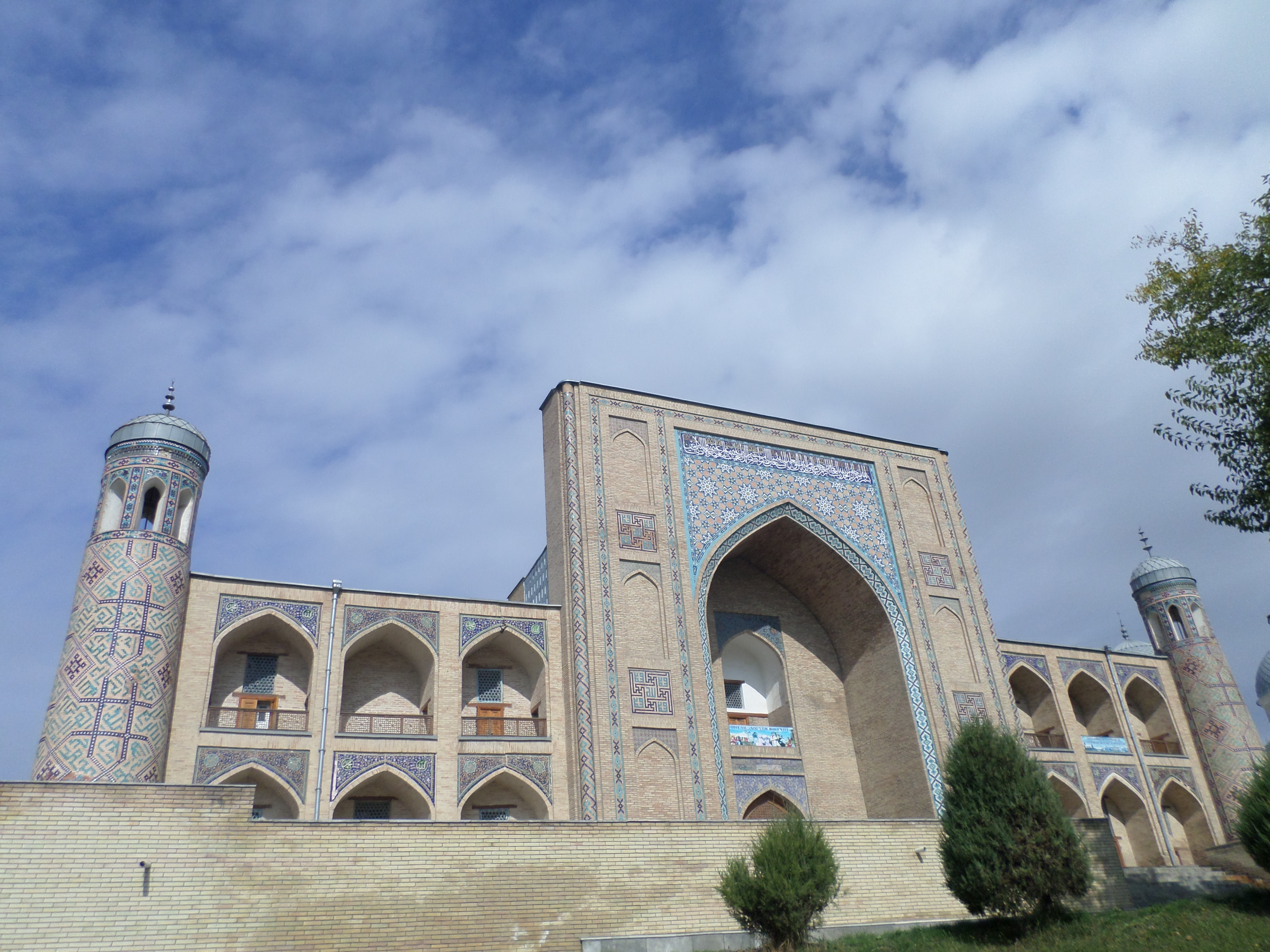 Madrasah Kukaldash (Tashkent)